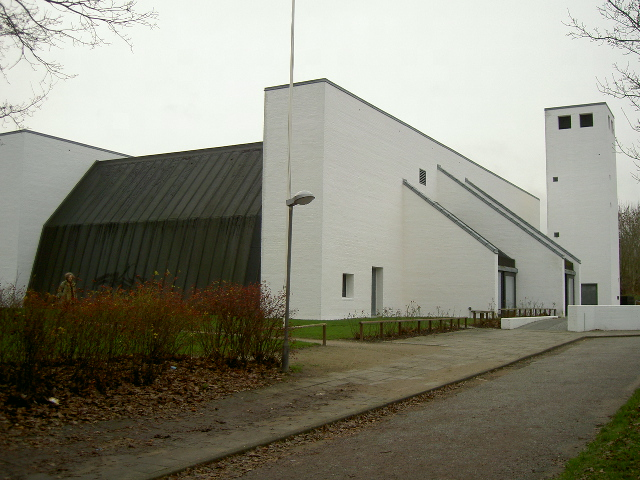 Ellevang Kirke from east-north-east